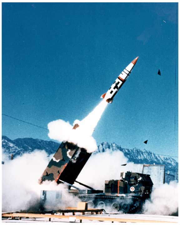 MGM-140 ATACMS